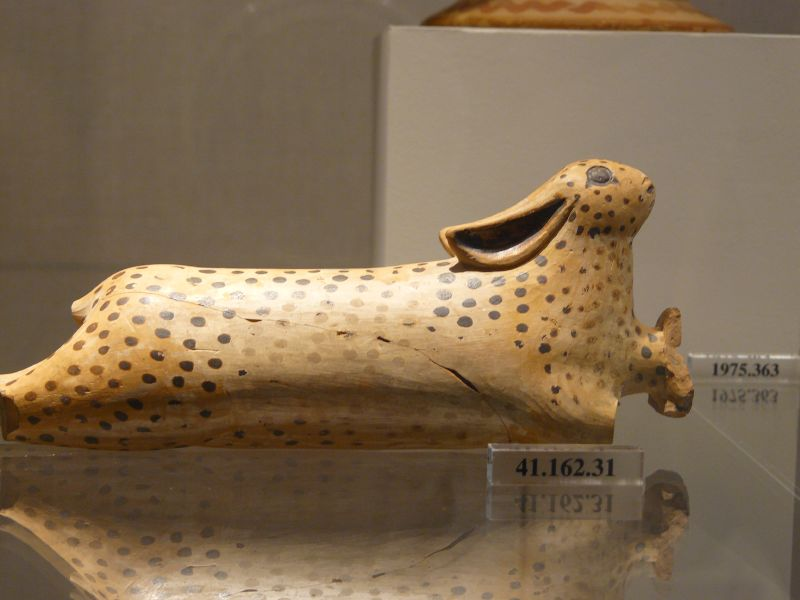 Etruscan Etrusco-Corinthian perfume vase in the shape of a hare